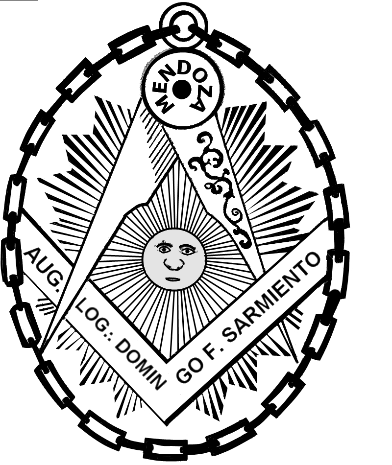 Seal of ST. John Lodge DF Smiento; used in Masonic correspondence, Mendoso/Argentina